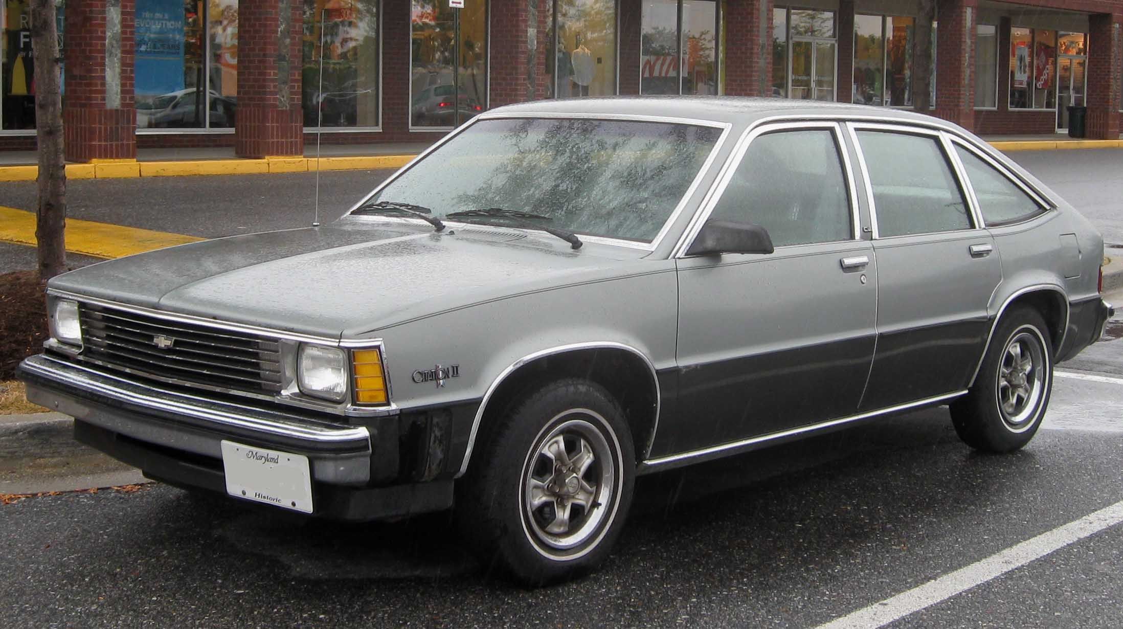 Chevrolet Citation II photographed in Clinton, Maryland, USA.